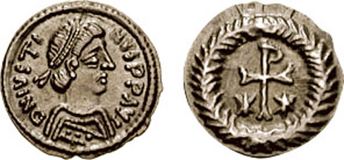 Justin II. 565-578 AD. AR Half Siliqua (0.72 g, 6h). Ravenna mint. D N IVSTINVS P P AVG, diademed, draped, and cuirassed bust right Cross surmounted by Christogram, forked base to cross; flanked by stars; all within wreath. see: DOC I 215; MIB II 41; SB 412. Choice EF, dark toning with a hint of iridescence. From the Malcolm W. Heckman Collection.